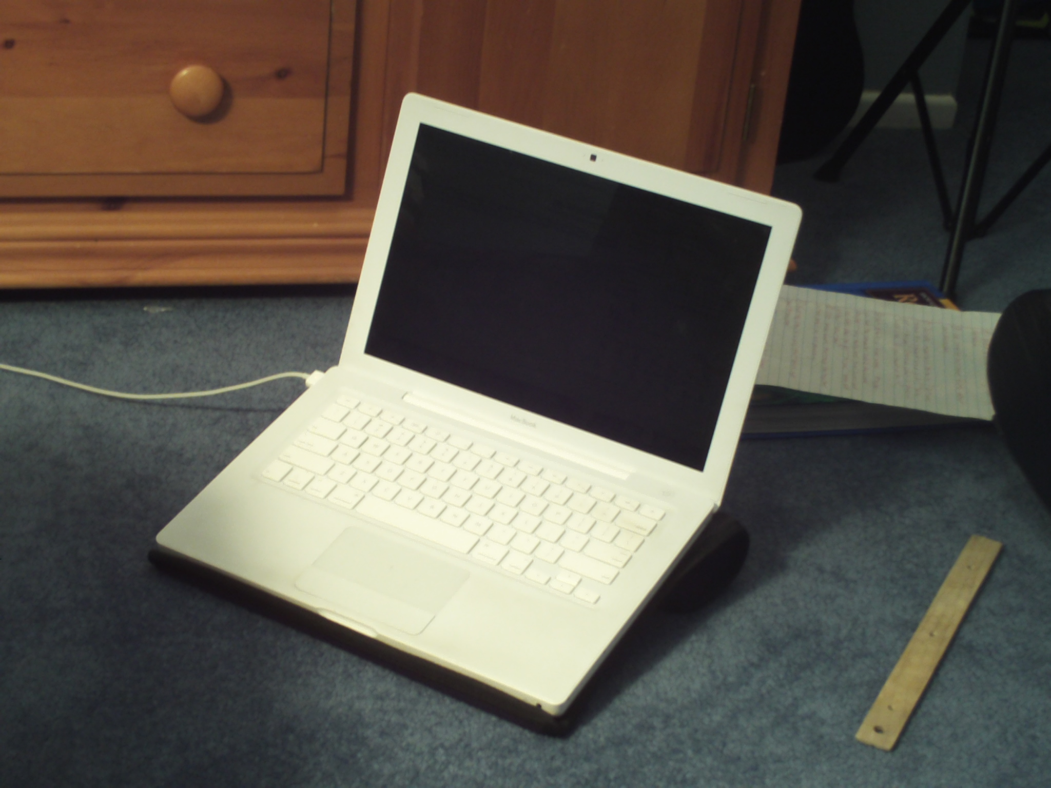 A photo of a Early 2008 White MacBook.